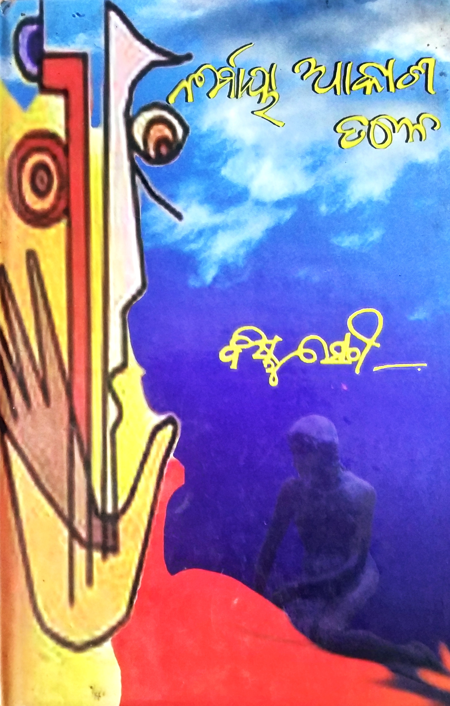 First Poem Collection of Bishnu Sethi